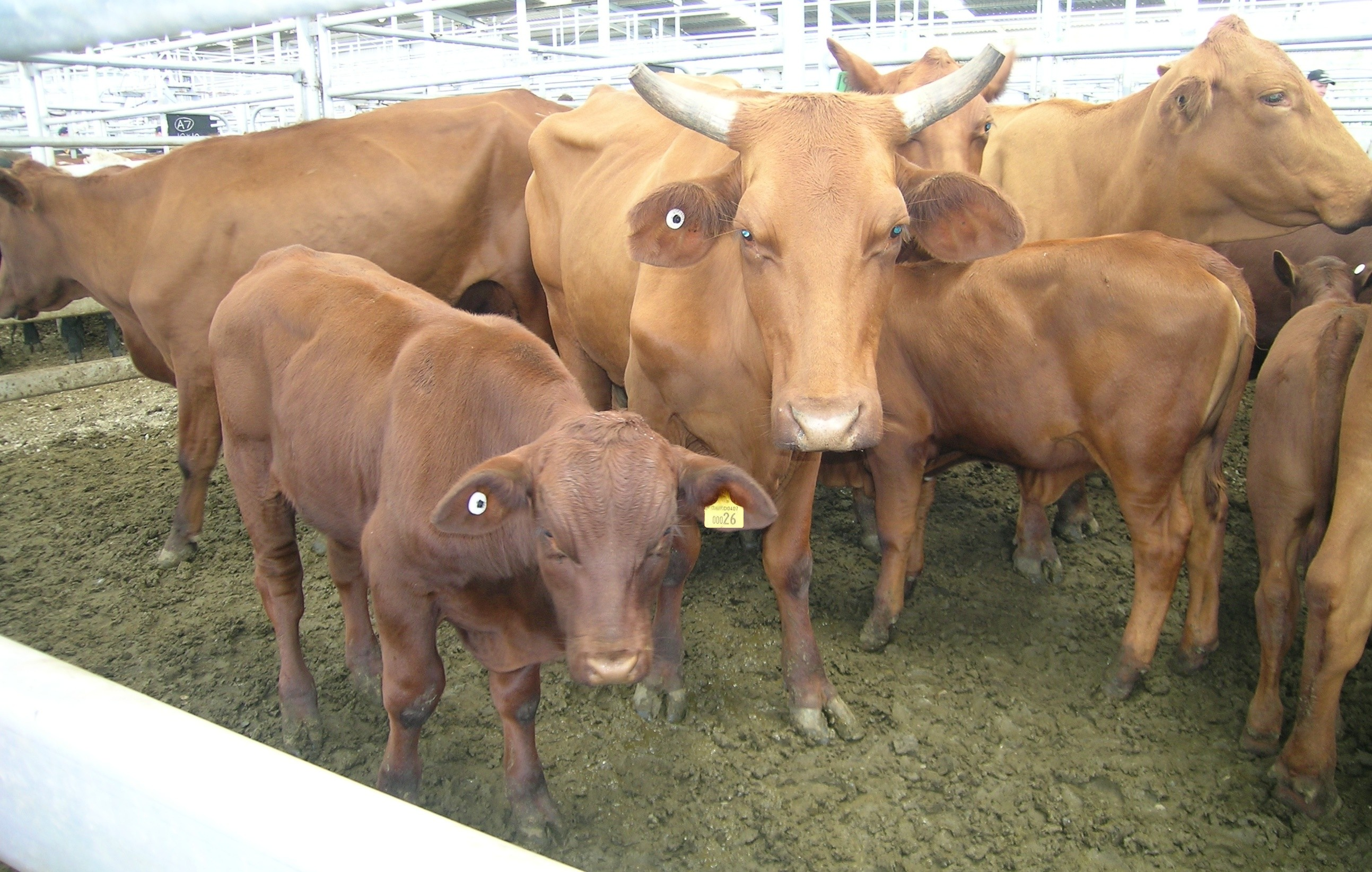 Santa Gertrudis cows and calves, The calf has and Electronic Ear Tag and herd management tag (yellow).